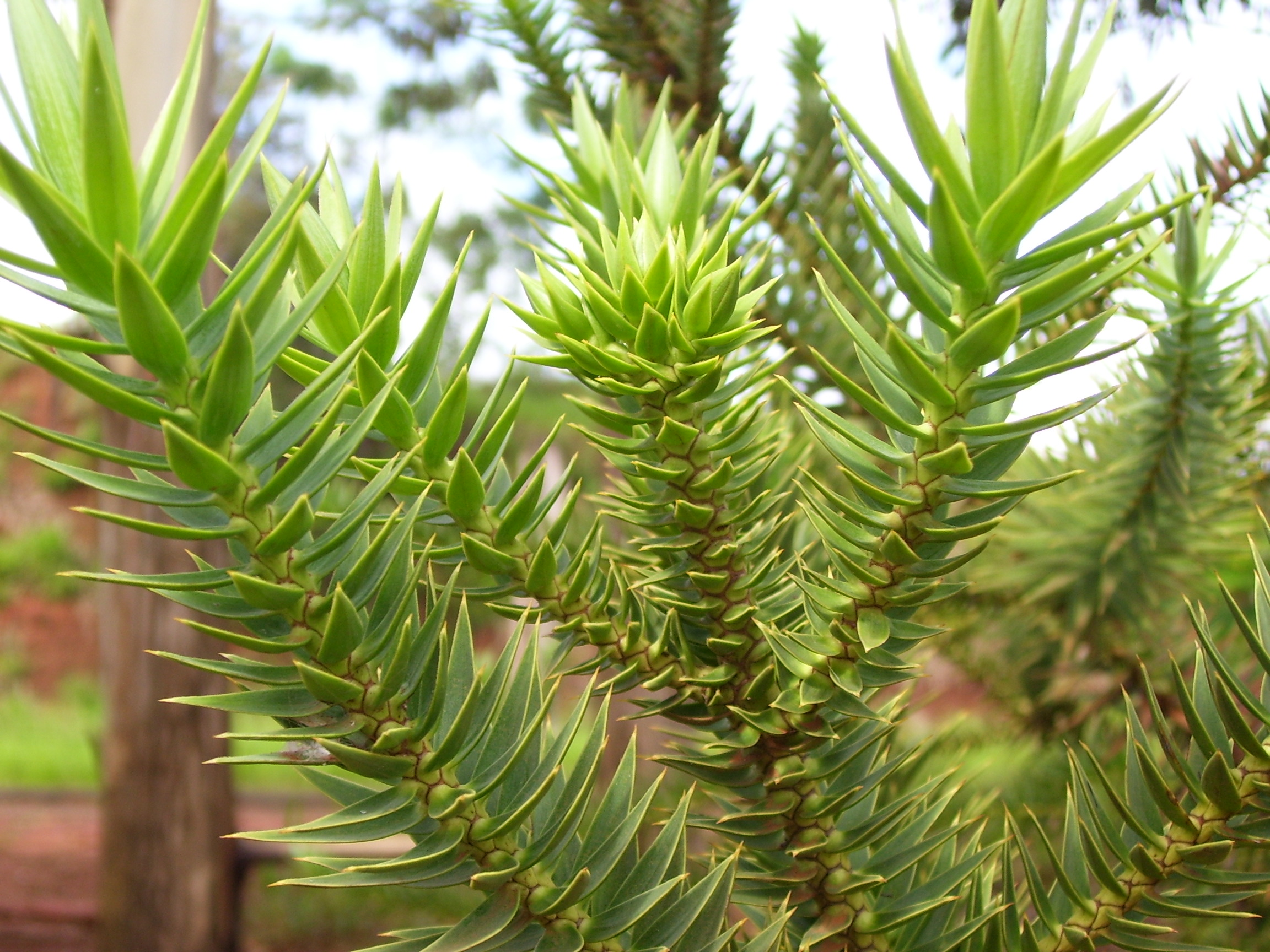 Leaf of Araucaria angustifolia